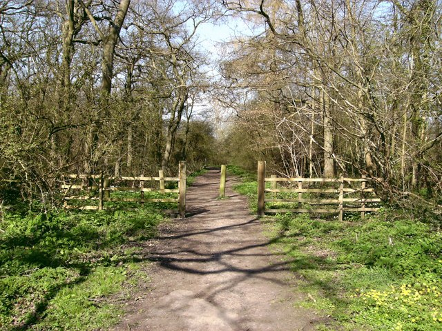 Bradley Woods Looking north west from the car park and children's play area roughly in the centre of the wood. Bradley Wood and the nearby Dixon Wood are ancient, being mentioned in the Domesday Book of 1086, and called "broad wood". The importance of this was recognised by the local council in 1998, and was declared a local Nature Reserve. More information can be found on